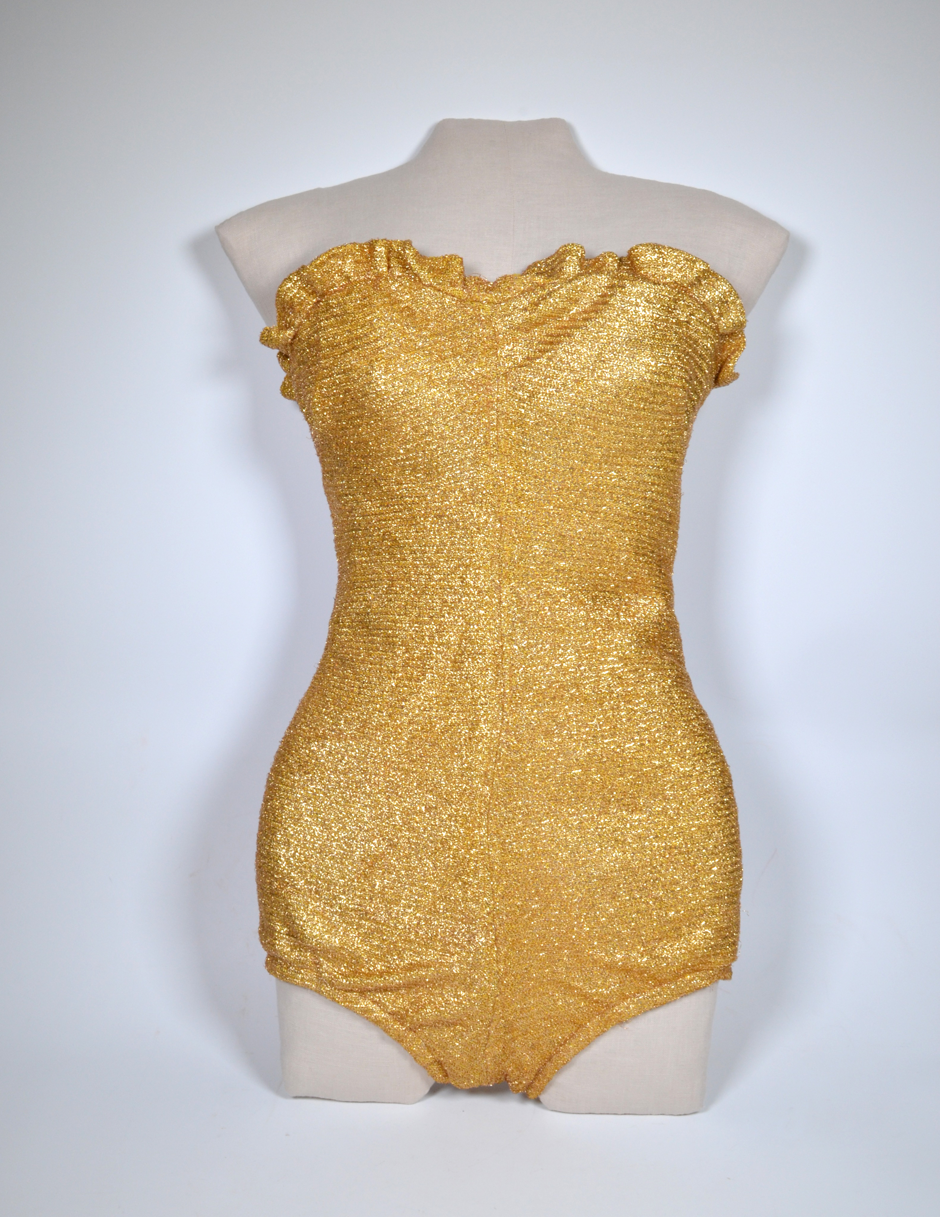 This photo shows a "Glittering Metallic Lamé" Rose Marie Reid swimsuit from 1946 owned by the Harold B. Lee Library of Brigham Young University displayed on a dressform.